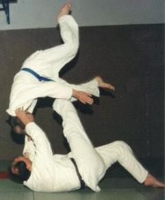 Picture shows a dynamic soto-maki-komi. Image has been edited from original size.